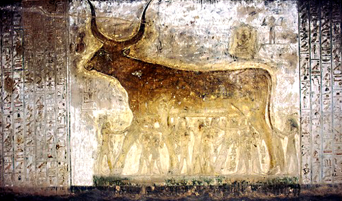 A scene from the Book of the Heavenly Cow as depicted in the tomb of Seti I, East Valley of the Kings location KV17. It depicts the sky goddess Nut in her bovine form, being held up by her father Shu, the god of the air. Aiding Shu are the eight gods of the Ogdoad. Across the belly of Nut (representing the visible sky) sails the sun god in his day barque.